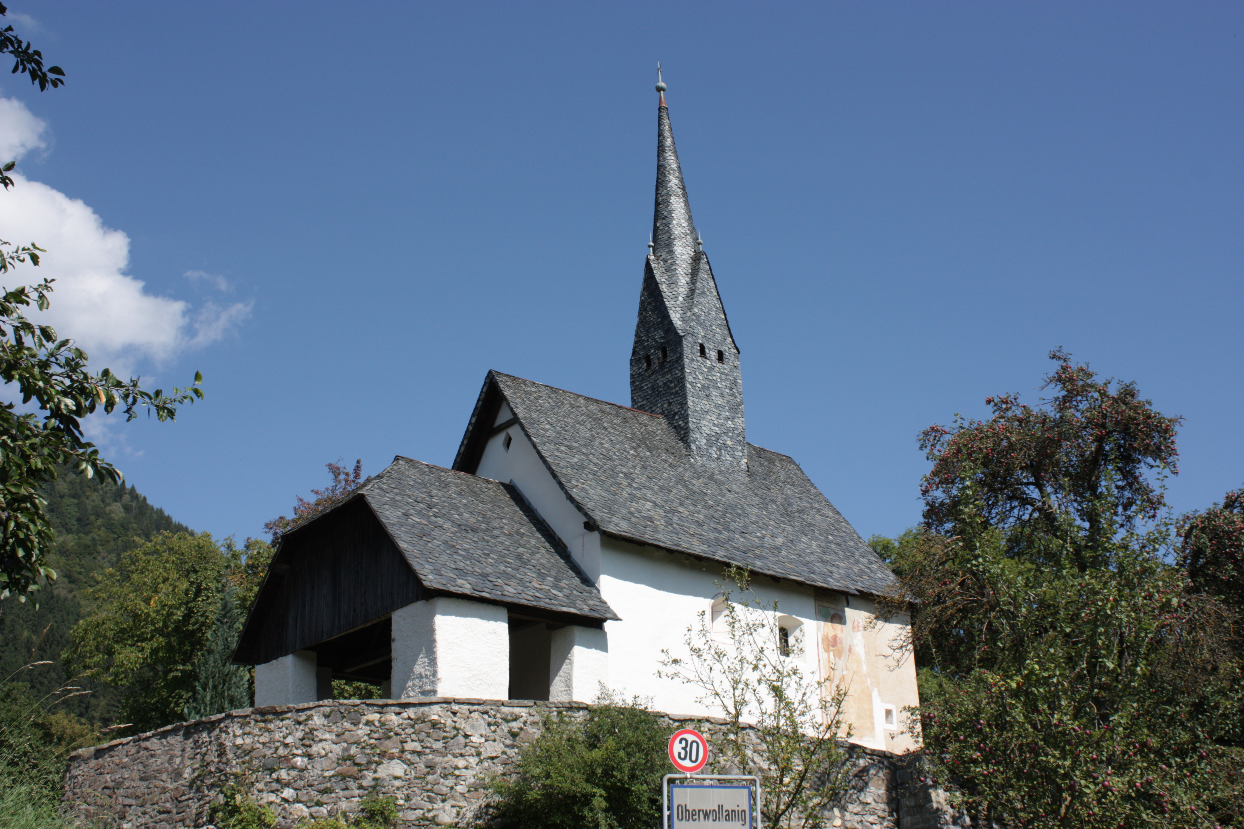 Subsidiary church Saint Laurentius Localtiy: Oberwollanig Community: Villach